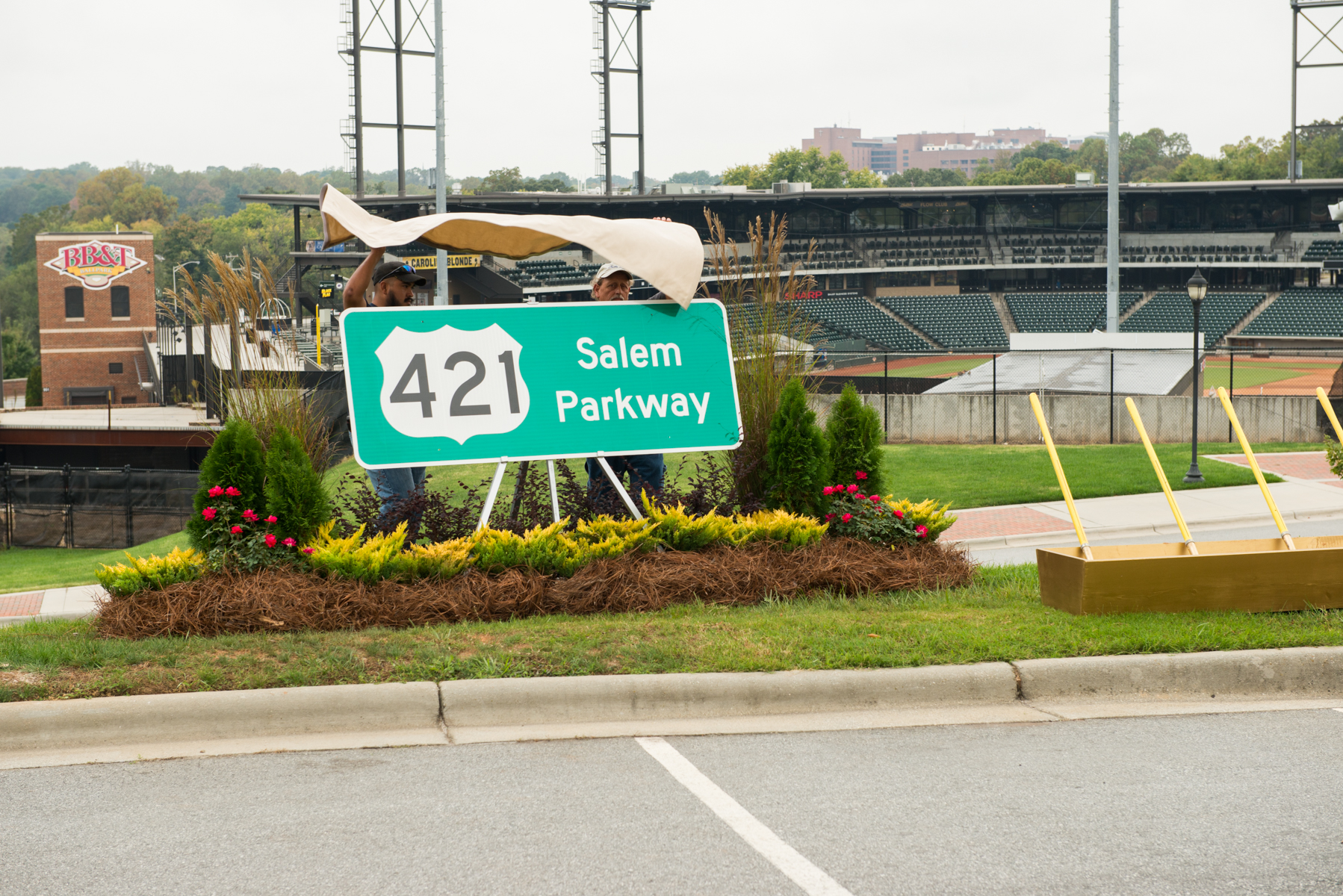 Unavailing of Salem Parkway, new name of freeway through Winston-Salem, located at the BB&T Ballpark.